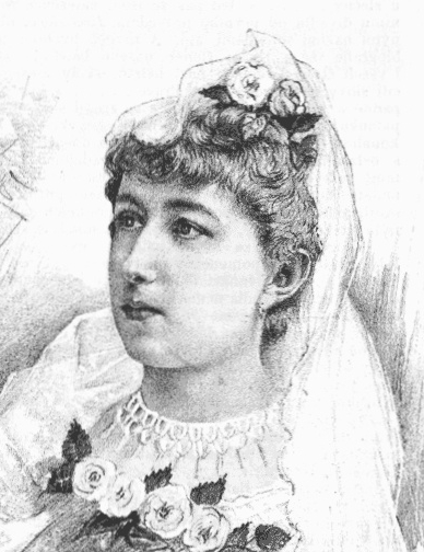 Marie Zieglerová